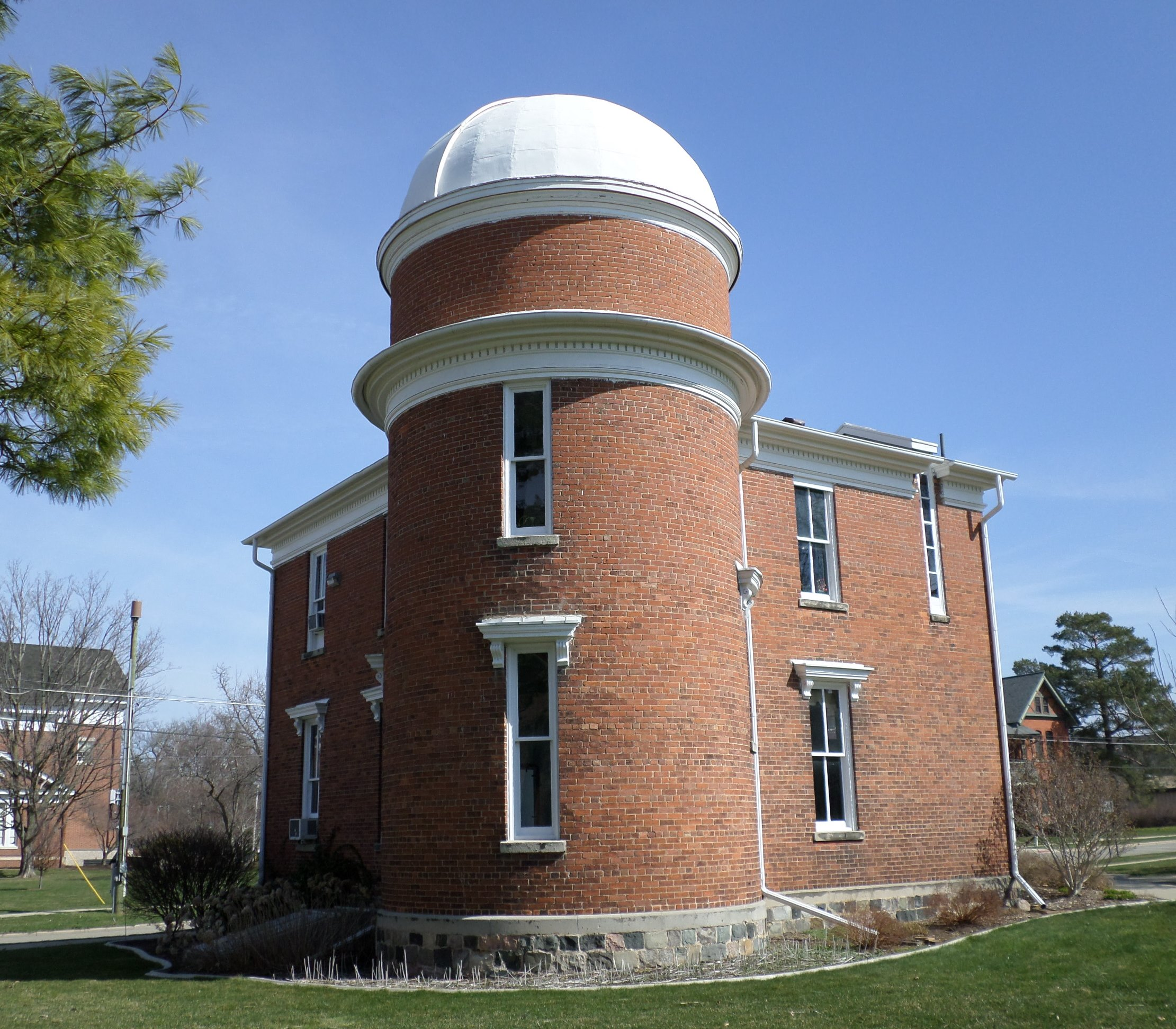 The observatory located on the campus of Albion College, Albion, MI. The building is listed as a Michigan State Historic Site.